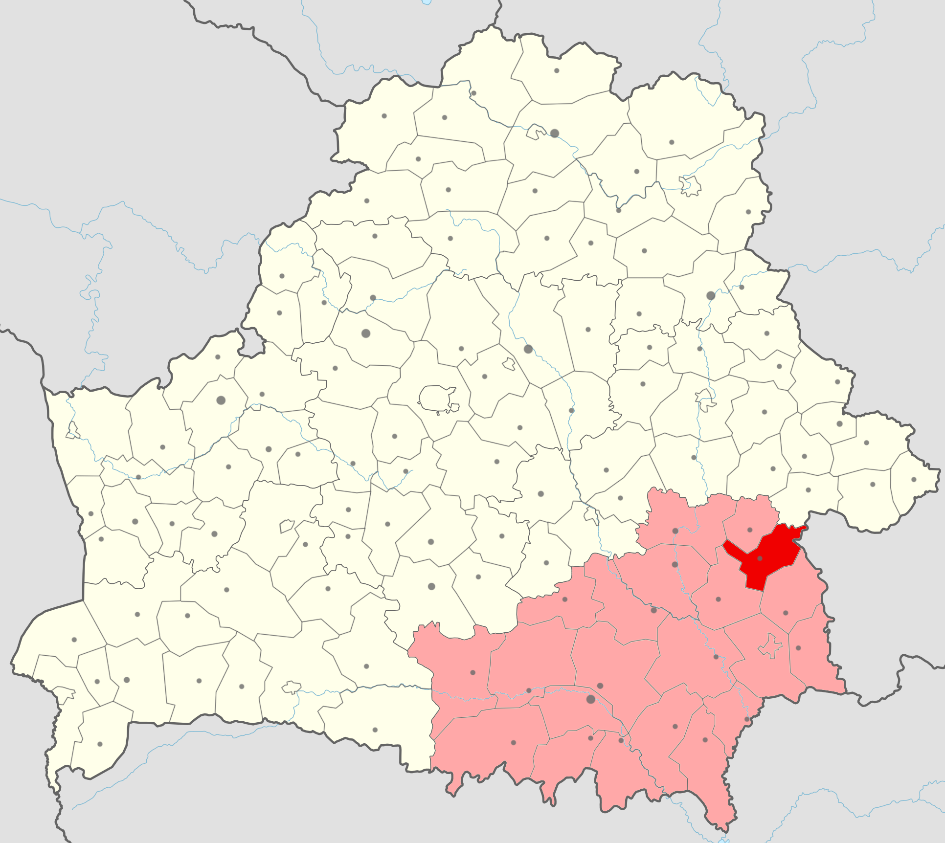 Location of Čačerski rajon (red) in Homieĺskaja voblasć (light red) in Belarus.